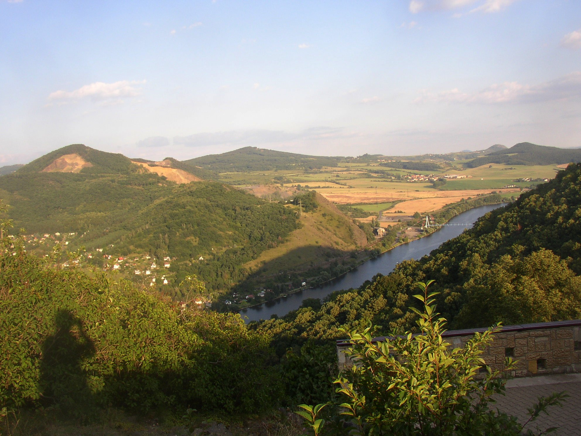 České středohoří, Czech Republic. A view from lookout point next to St Barnara church in Dubice over the Elbe towards southeast. Deblík (459 m, left froreground), Plešivec (509 m, left background), Radobýl (399 m, right background behind Strážiště), Strážiště (362 m, right background). The village in the middle at foot of the hills is Řepnice, a part of Libochovany municipality